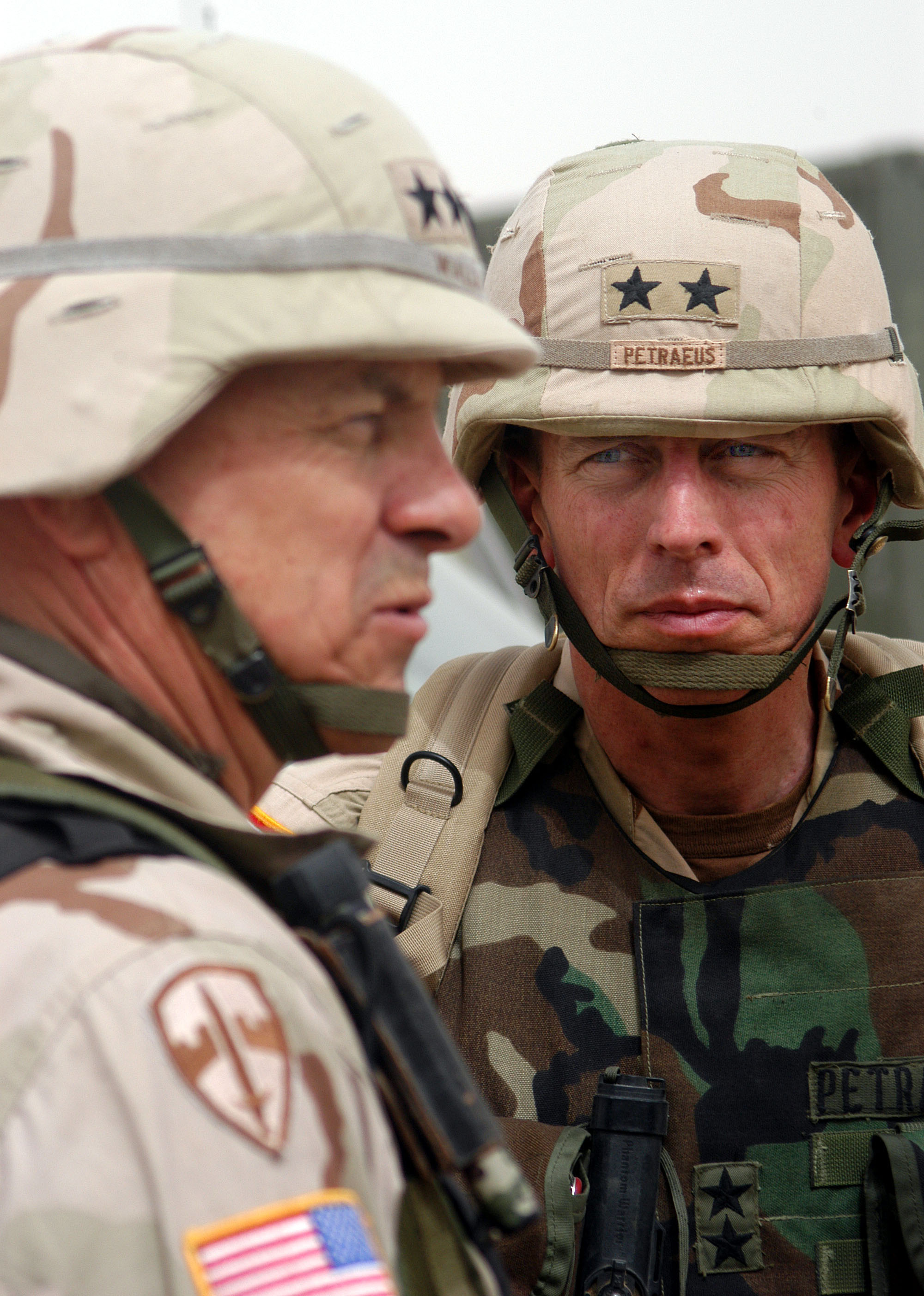 CAMP NEW JERSEY, Kuwait (March 21, 2003) - Maj. Gen. David H. Petraeus (right), commanding general, 101st Airborne Division, (Air Assault) looks on as Lt. Gen. William S. Wallace, V Corps commanding general speaks to soldiers, following a missile attack drill Thursday afternoon.